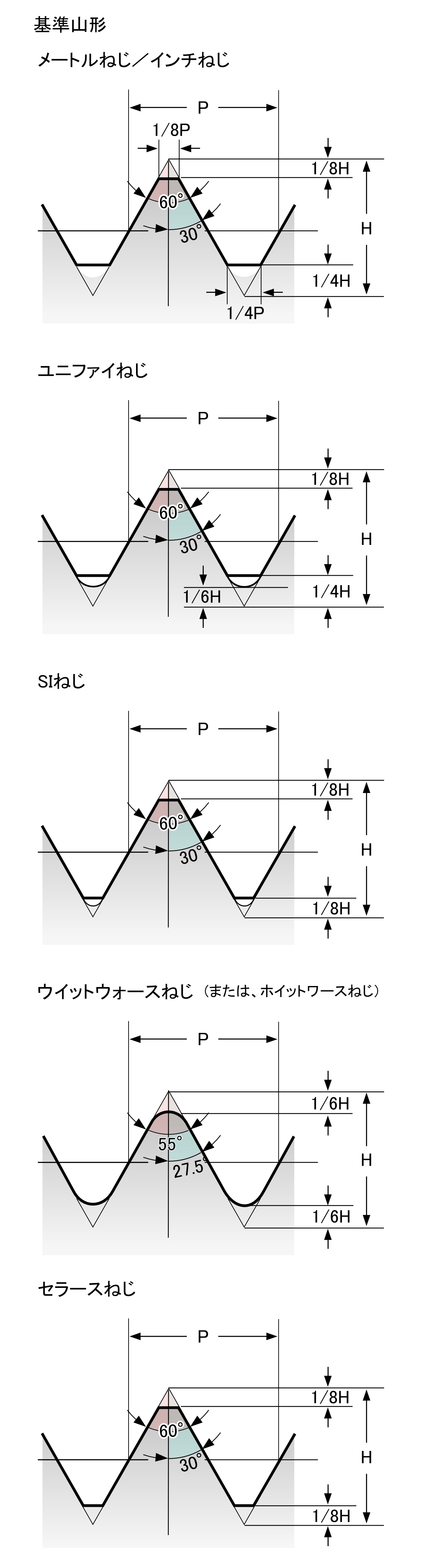 Screw (bolt) 20A-J